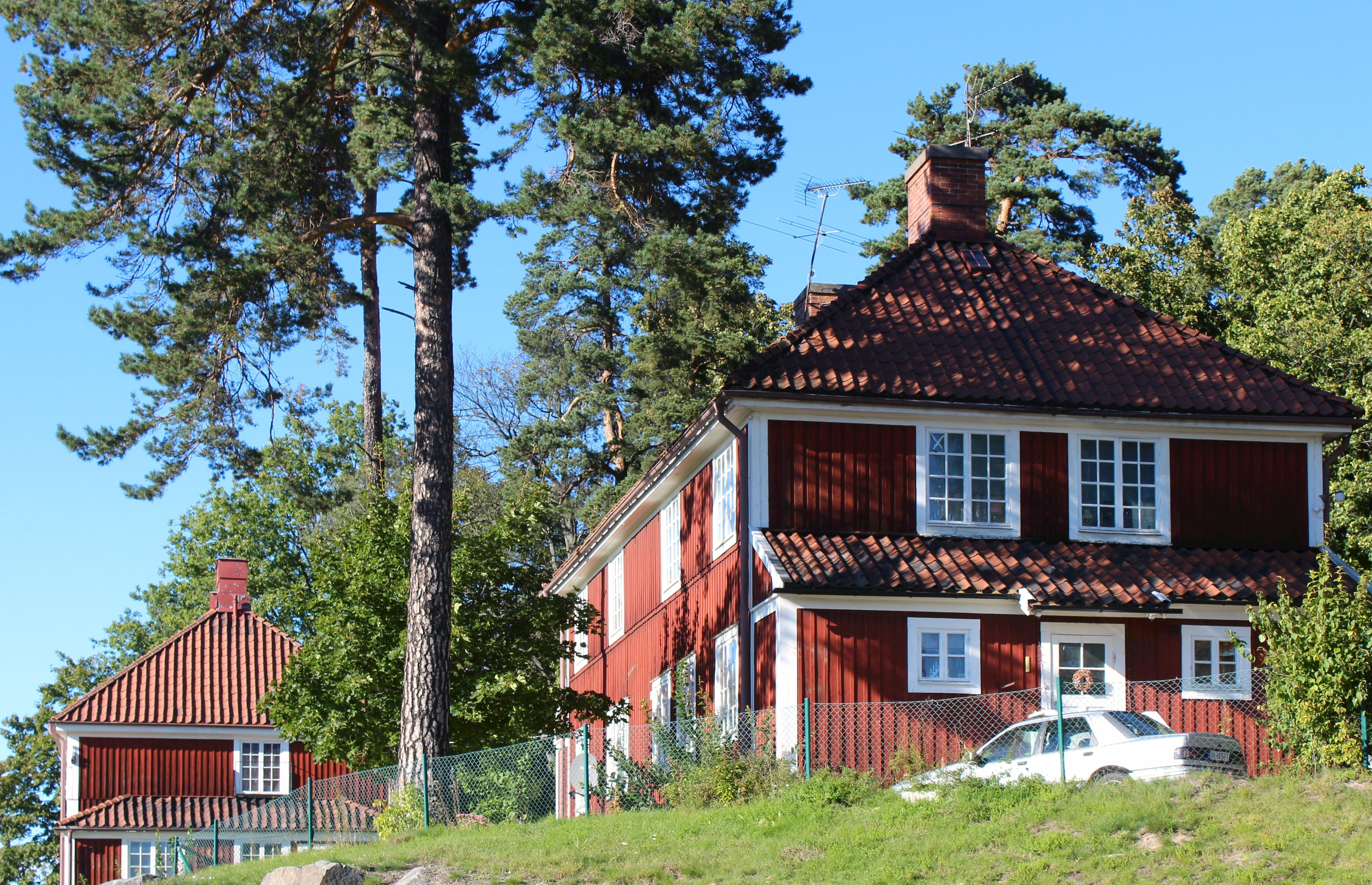 Buildings in Ritorp, an area of Solna municipatity, Sweden